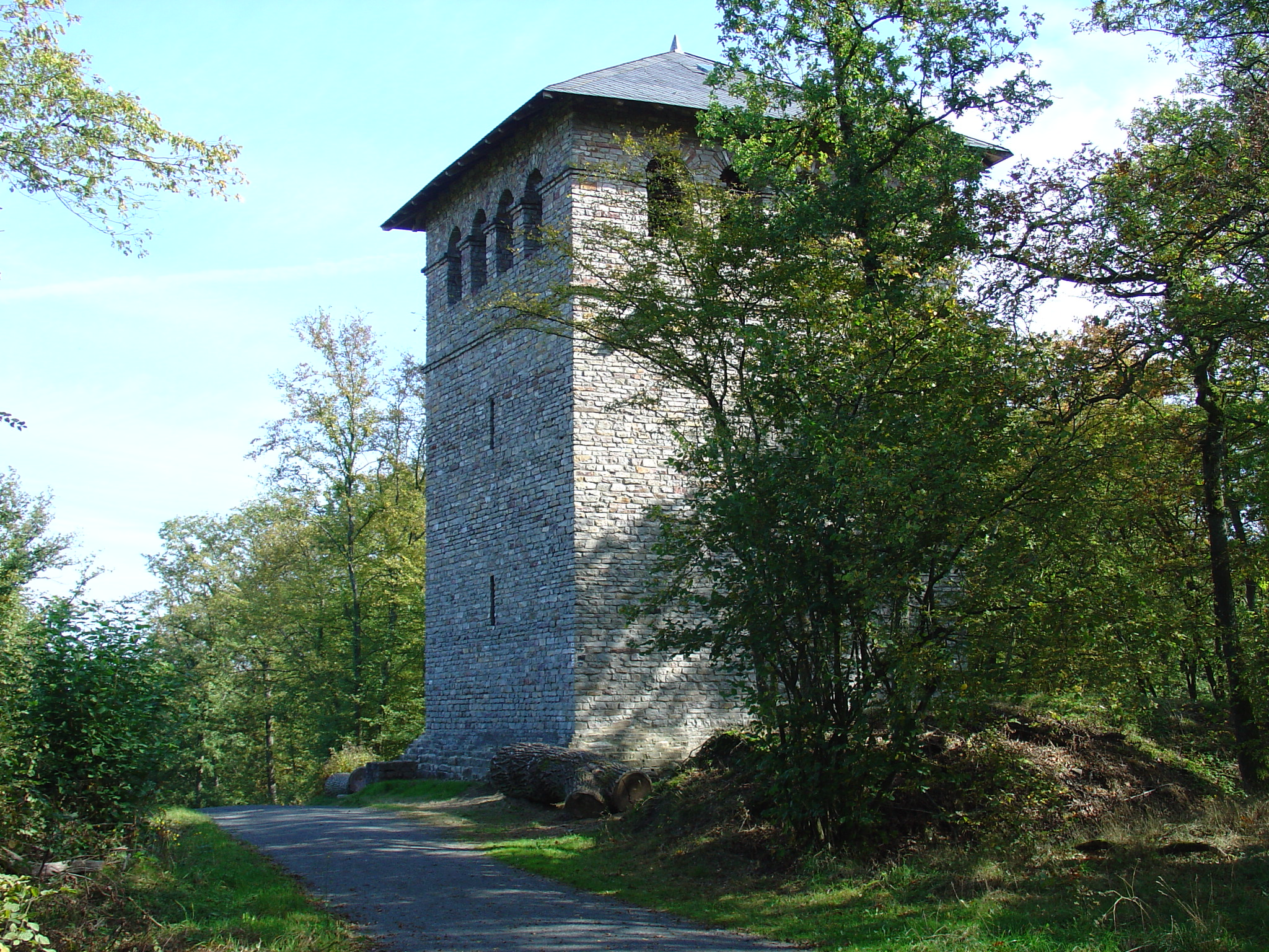 Reconstructed Limes (ORL) watch tower Wp 4/16, between Bad Nauheim and Pfaffenwiesbach